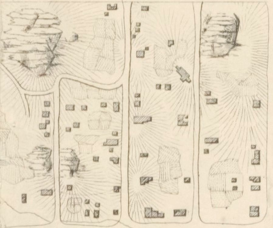 Crop of detail of Egbert Ludovicus Viele's topographical survey of the land upon which Central Park was created, showing map of Seneca Village